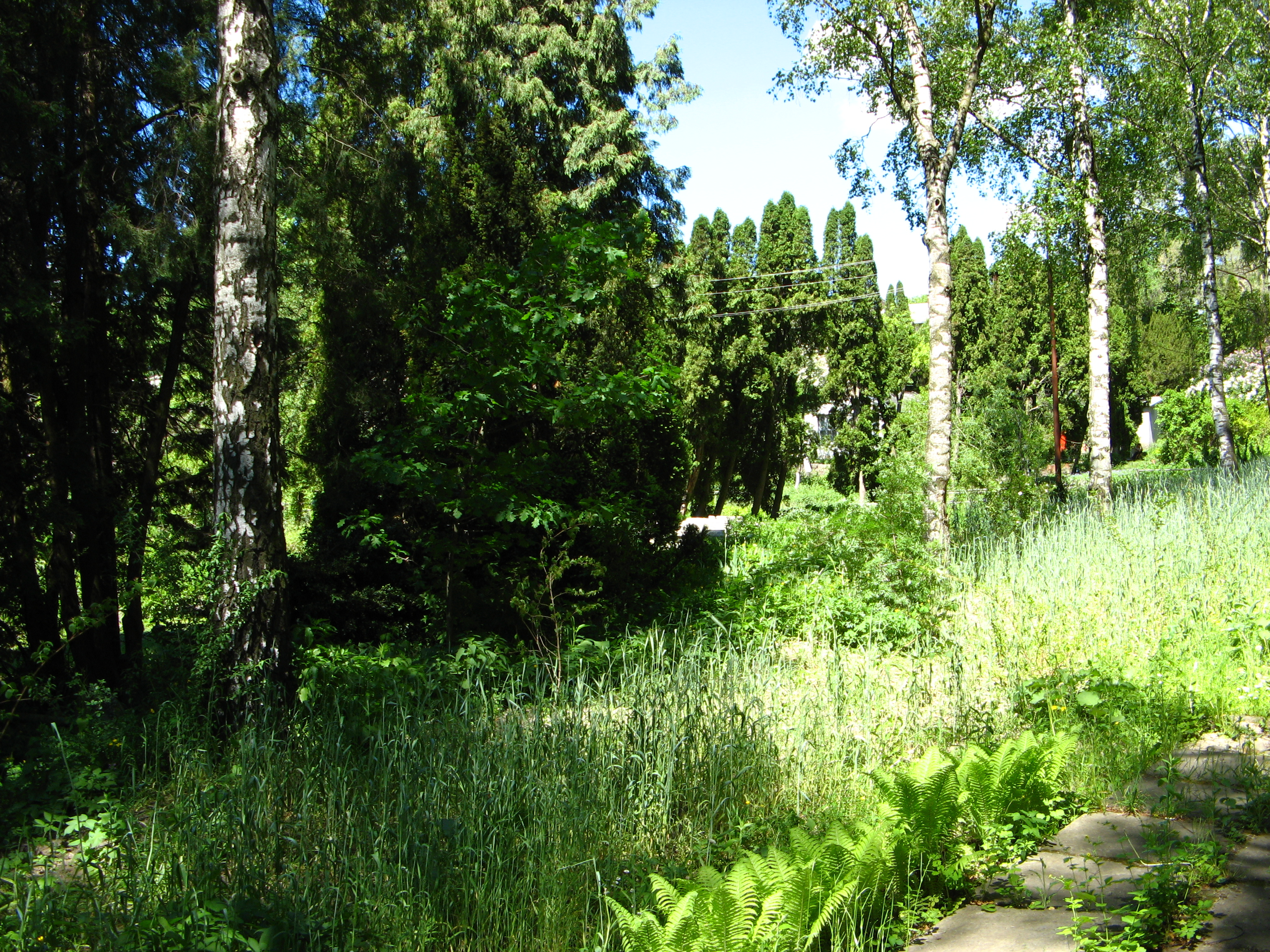 Lviv National Medical University Botanical Garden